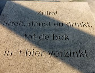 Photo of the slogan on the statue of Zulte.